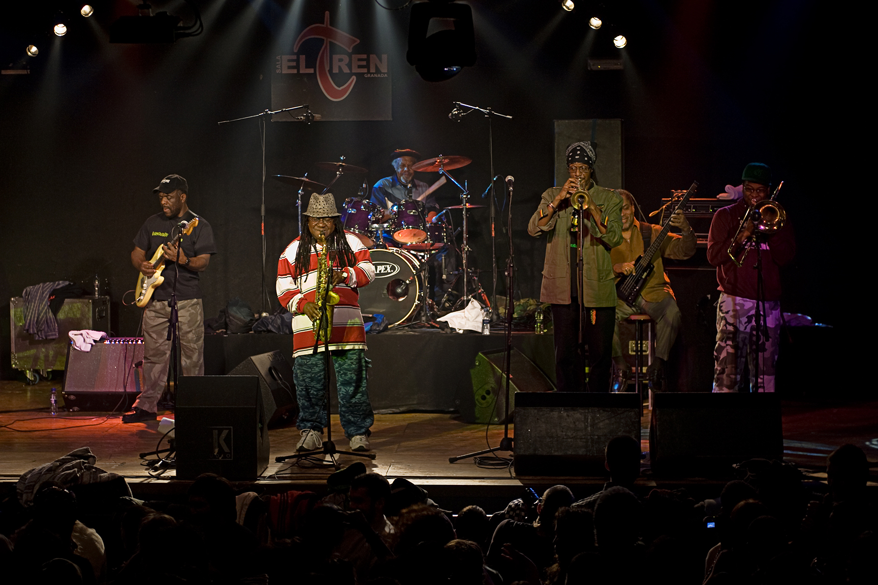 A Concert of the legendary band "The Skatalites in Granada, Spain